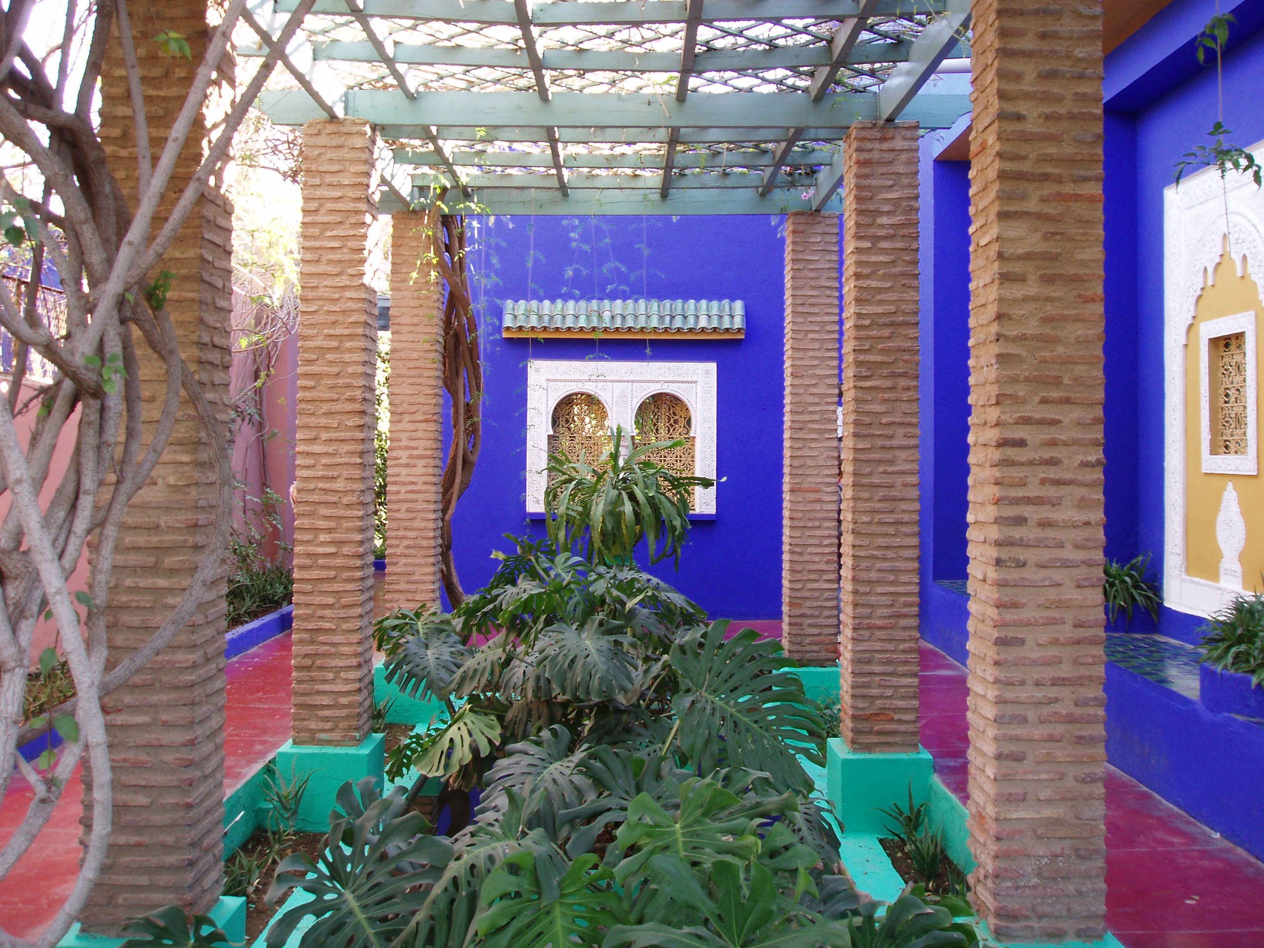 The Majorelle Garden is a botanical garden in Marrakech, Marocco.